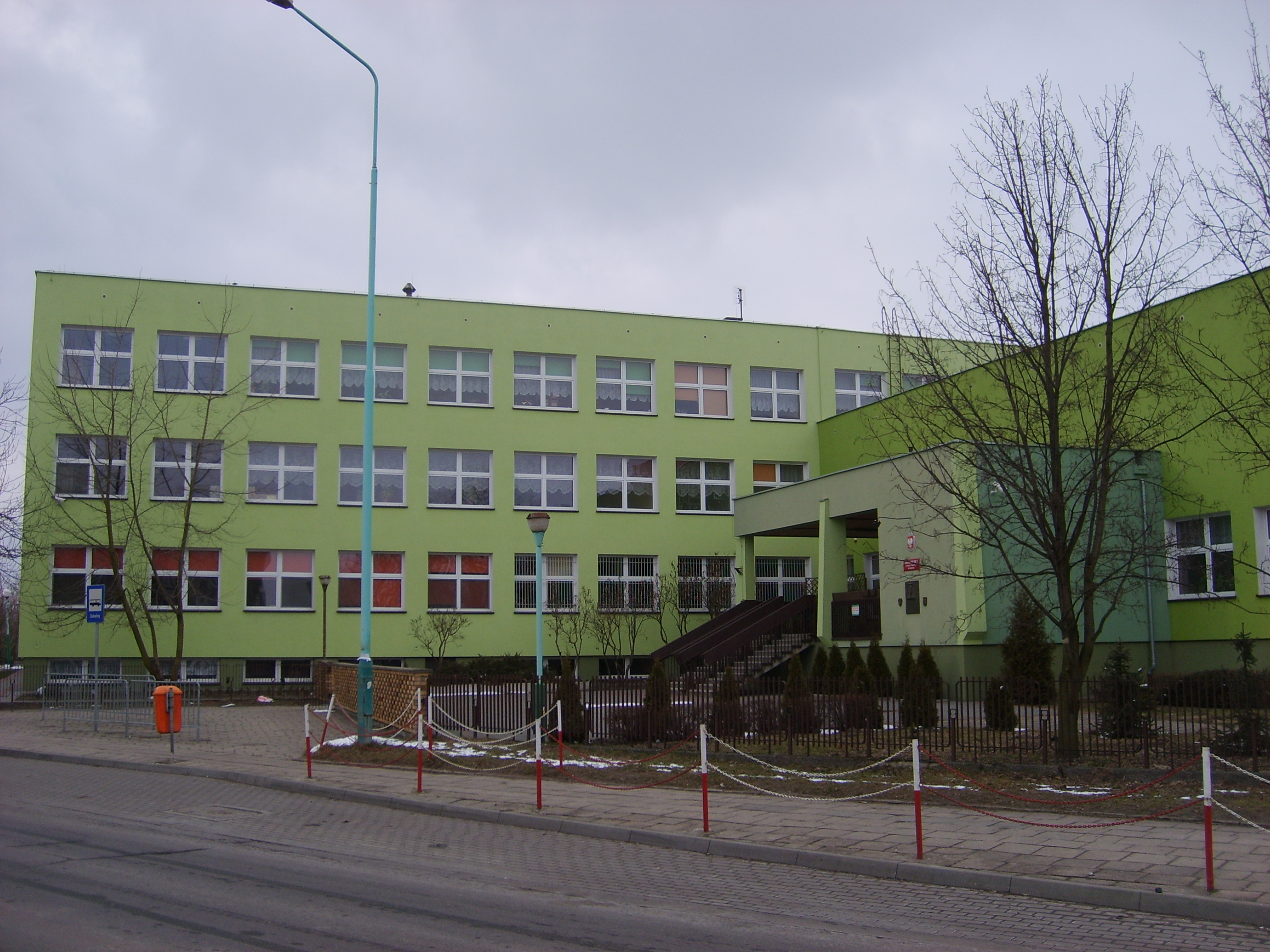 Gimnazjum nr 2 im. Andrzej Prądziński in Wrzesnia